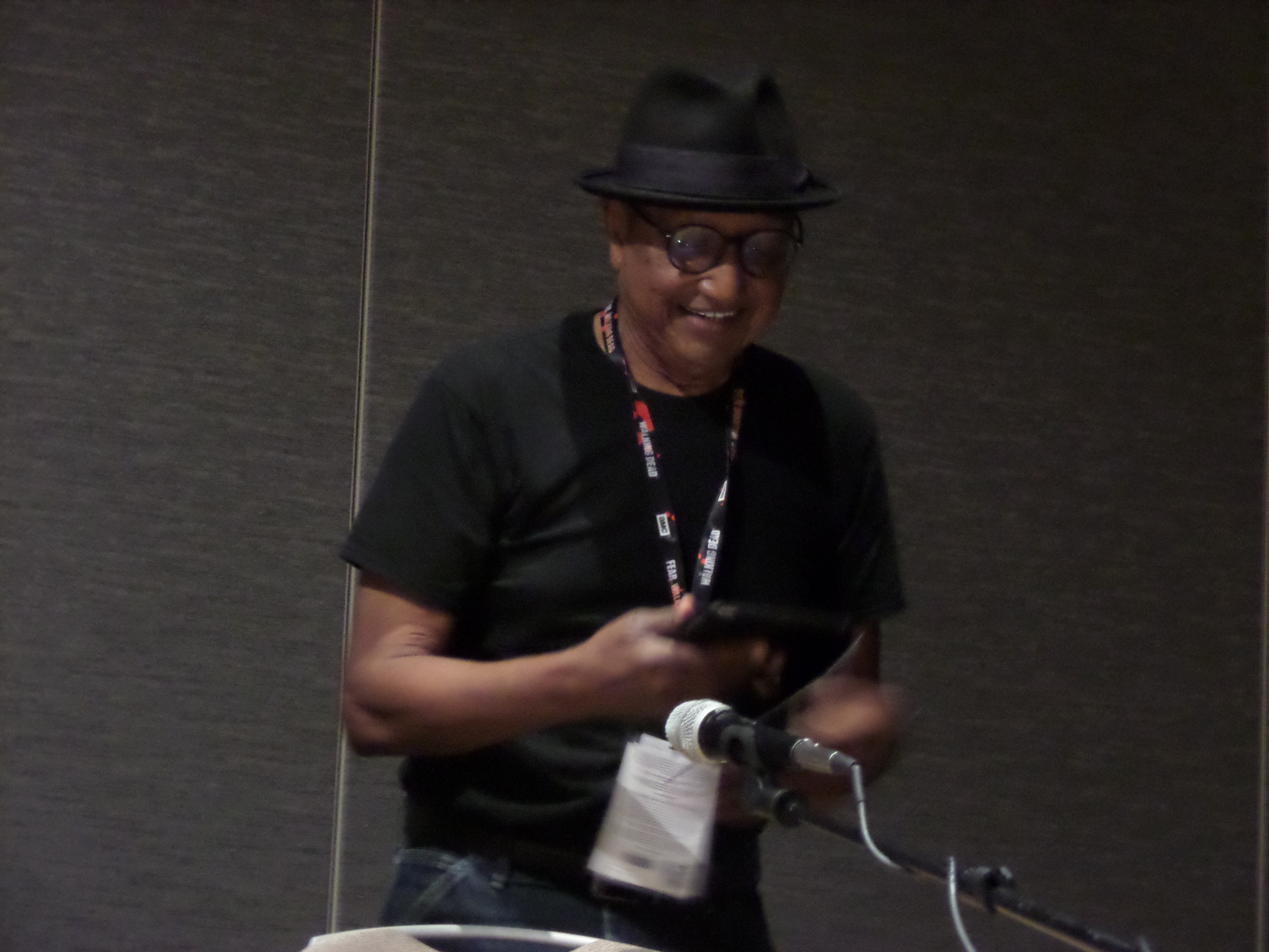 Floyd Norman